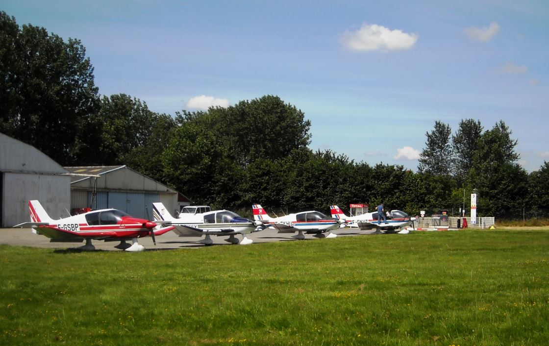 Bernay airfield.